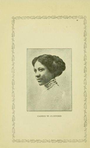 Carrie W. Clifford, 1911 in Carrie Williams Clifford, Race Rhymes (Washington, D.C.: R.L. Pendleton, 1911)